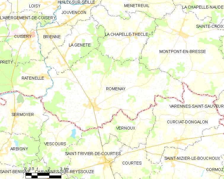 Map of French municipality